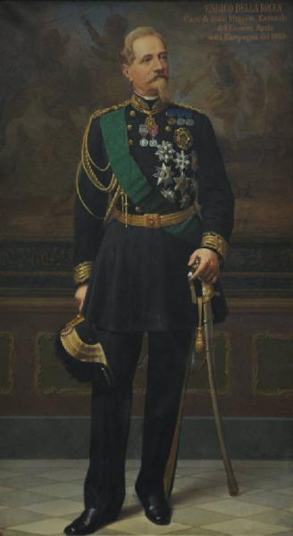 Portait of italian general Enrico Morozzo Della Rocca (1807-1897)